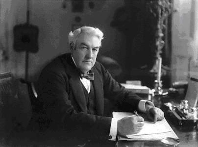 Ernest Troubridge, later an admiral of the Royal Navy, active during the First World War